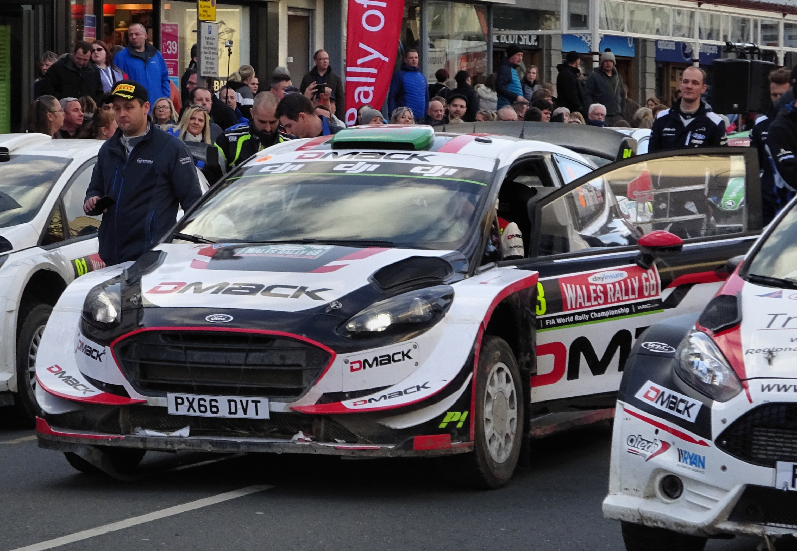 Elfyn Evans' car. Winner of the Wales Rally GB - penultimate round of the globe-trotting World Rally Championship - at Llandudno 29 October 2017.